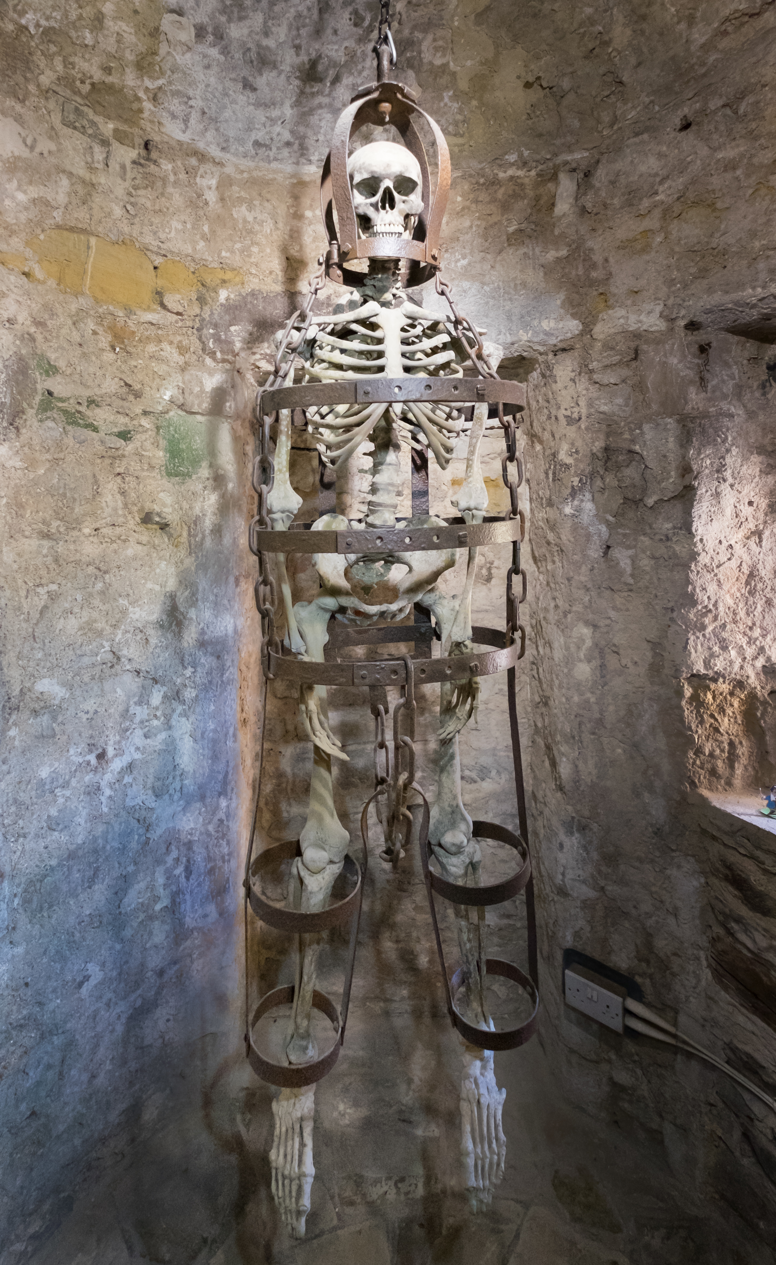 Gibbet with skeleton in the Ypres Tower cell, Rye Castle, Kent